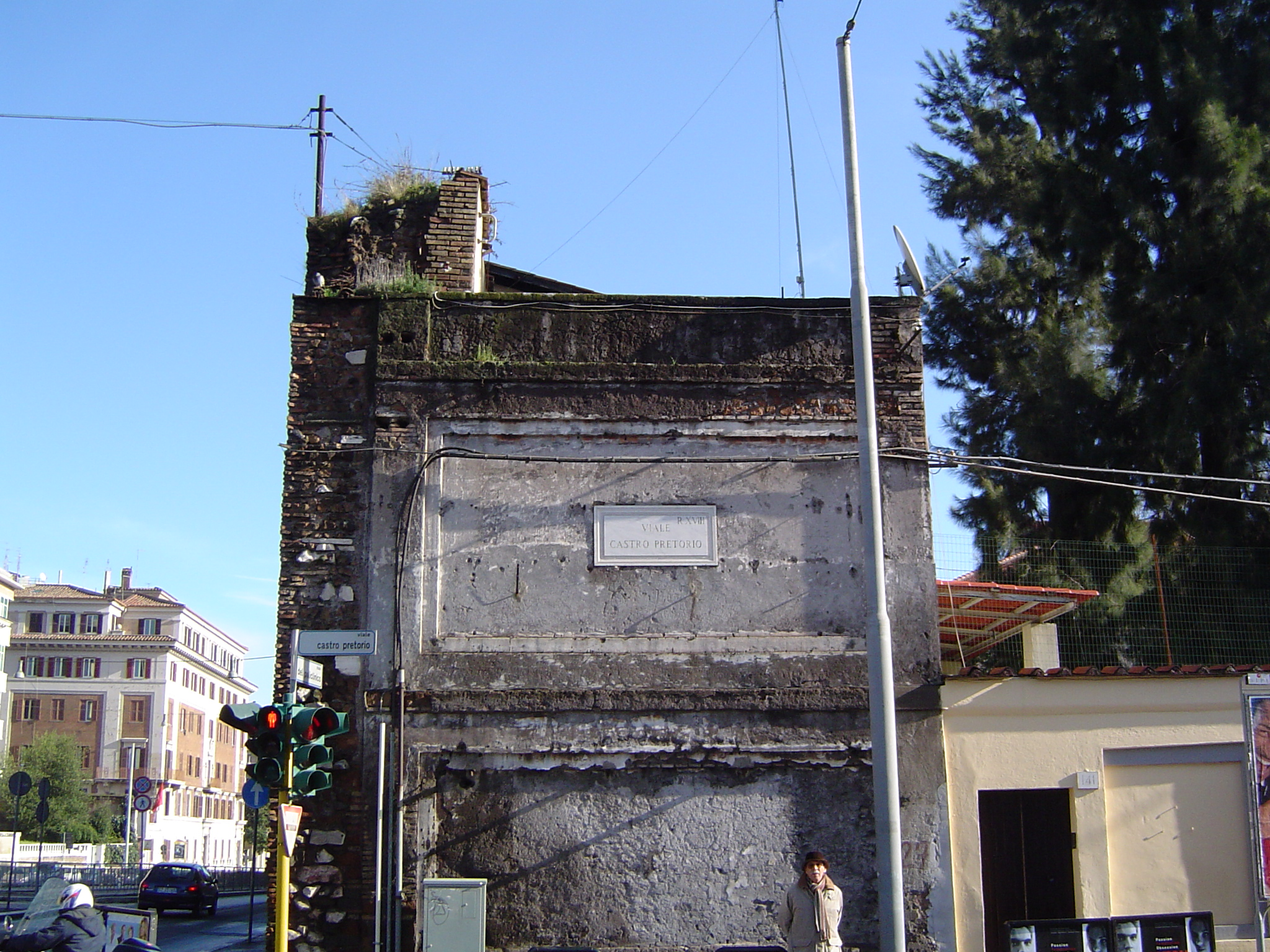 Castra Praetoria North Wall, Rome, Italy Made by Joris van Rooden, the Netherlands on 03-01-2006